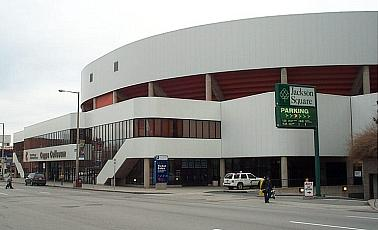 Copps Coliseum, Hamilton, Ontario. Photo by Montrealais.